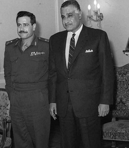 Chief of Staff of Syrian Army Mustafa Tlass (left) and Egyptian President Gamal Abdel Nasser in Cairo